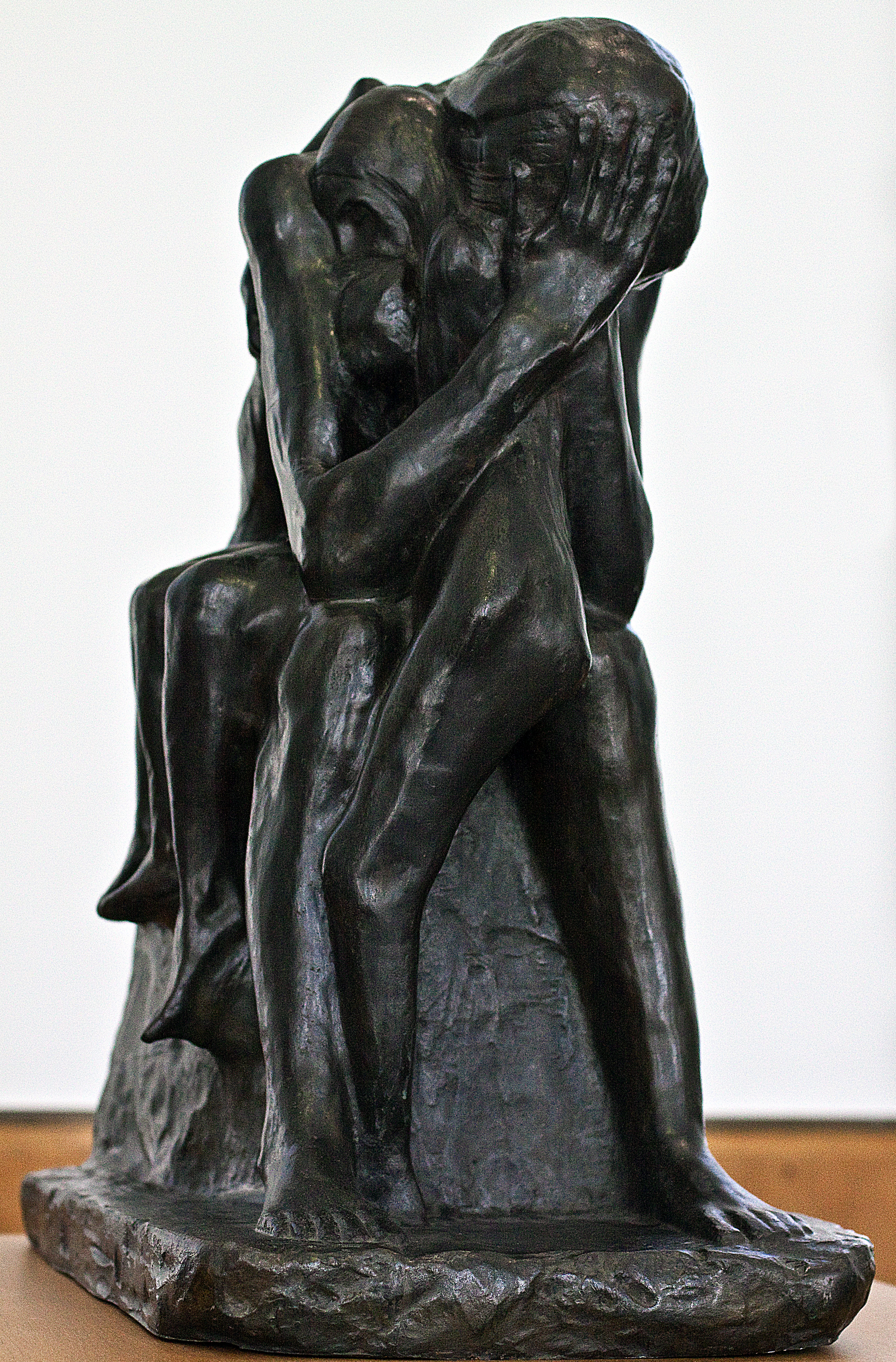 Georges Minne (1866, Ghent – 1941, St. Martens-Lathem). Mère protègeant ses enfans. 1888. Bronze. Rotterdam, Museum Boijmans Van Beuningen, Room 15 (inv.no. BEK 1294 (MK)).